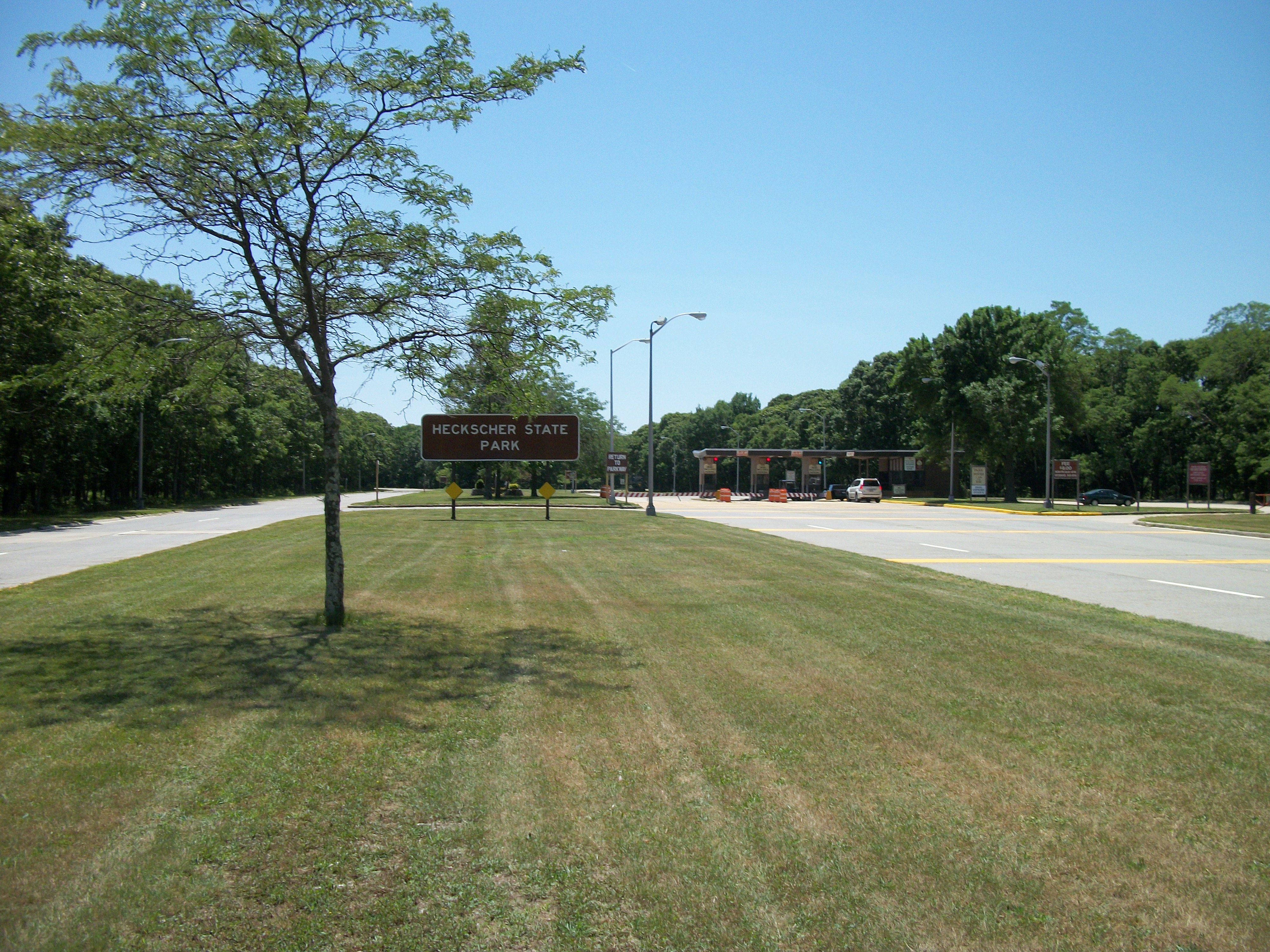 The toll booth and official entrance to Heckscher State Park at the south end of Heckscher State Parkway in Great River, New York. I tried to get a shot from the parkway facing the toll booth on the right, but it would've turned out like crap. So I had to wait until I left the park, pulled over to the side and walked into the median where I could get a shot of the sign. The girl who worked in the toll booth was cute though.